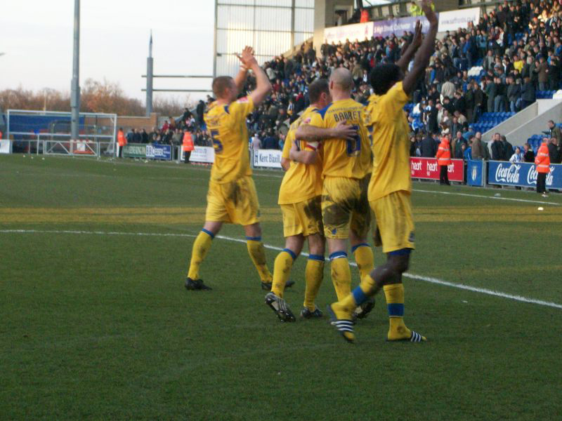 Southend United players in their yellow away kit celebrate following their away victory over local rivals Colchester United at the Weston Homes Community Stadium